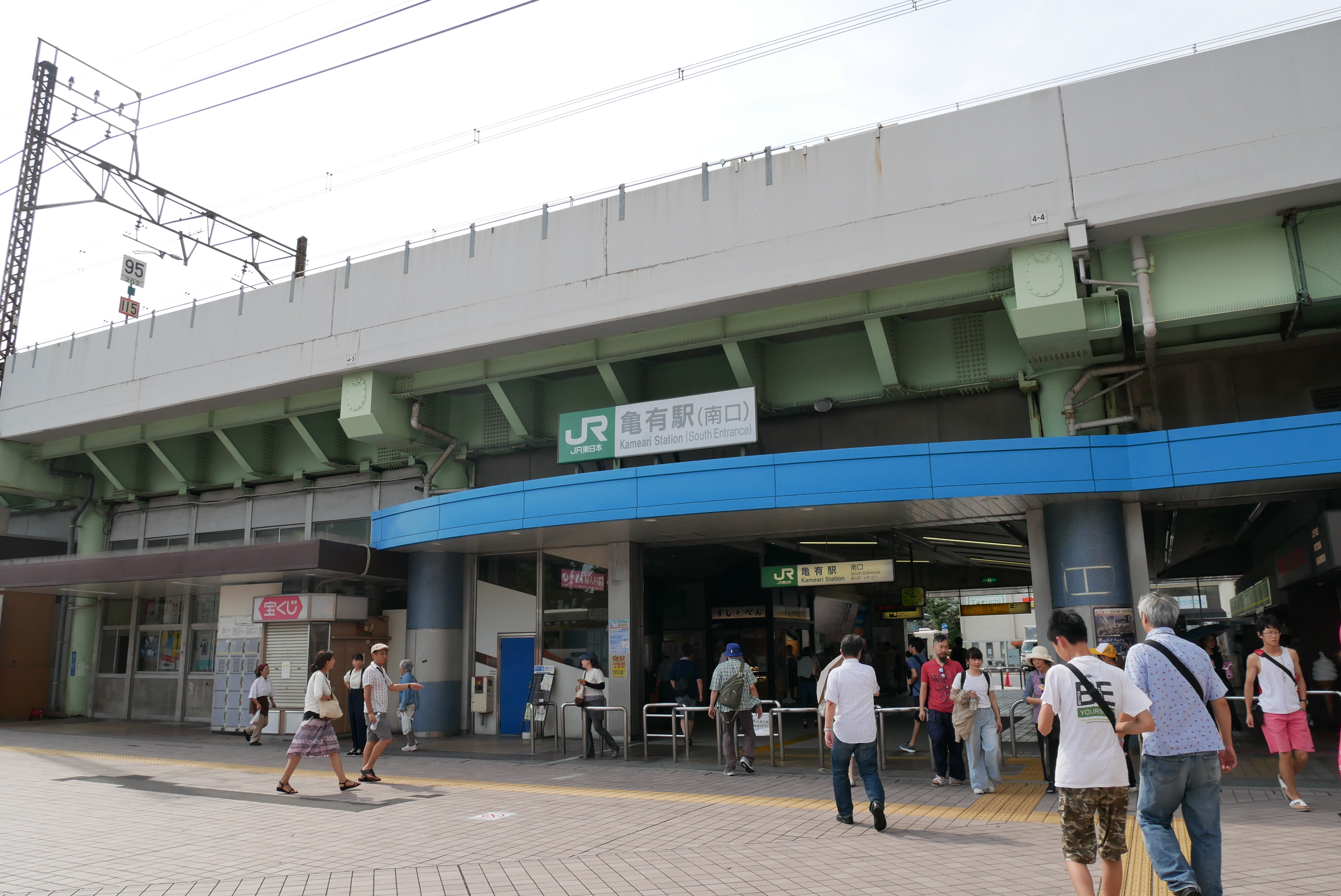 亀有駅の南口 (Kameari Station south exit)